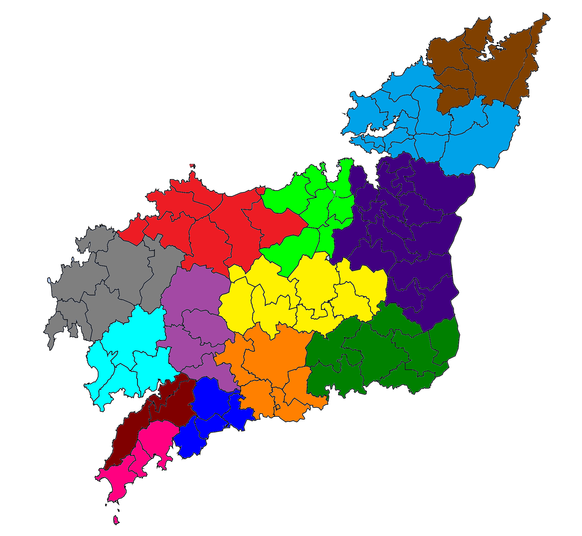 Law parties of La Coruña